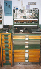 Storage rack for type cases.